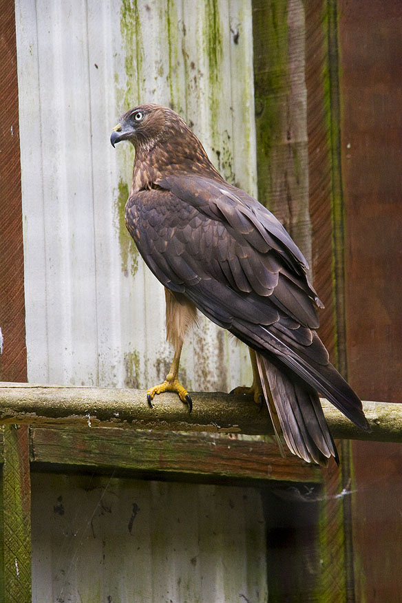 Swamp Harrier (Circus approximans gouldi) at Otorohanga Kiwi House, New Zealand.